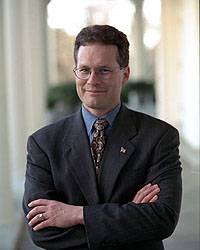 Deputy Assistant to the President and Director, Office of Intergovernmental Affairs Prior to joining the President's staff, Ruben Barrales he was President and CEO of Joint Venture: Silicon Valley Network, a regional civic organization of Silicon Valley business executives, government officials, and educational leaders. Previously, Ruben served on the San Mateo County (California) Board of Supervisors, becoming President of the Board in 1996. He has served on various statewide commissions, including the California Speaker's Commission on State and Local Government Finance. Ruben is a graduate of the University of California, Riverside.